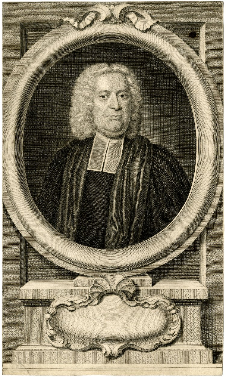 Portrait of Thomas Stackhouse (1677–1752), English theologian.